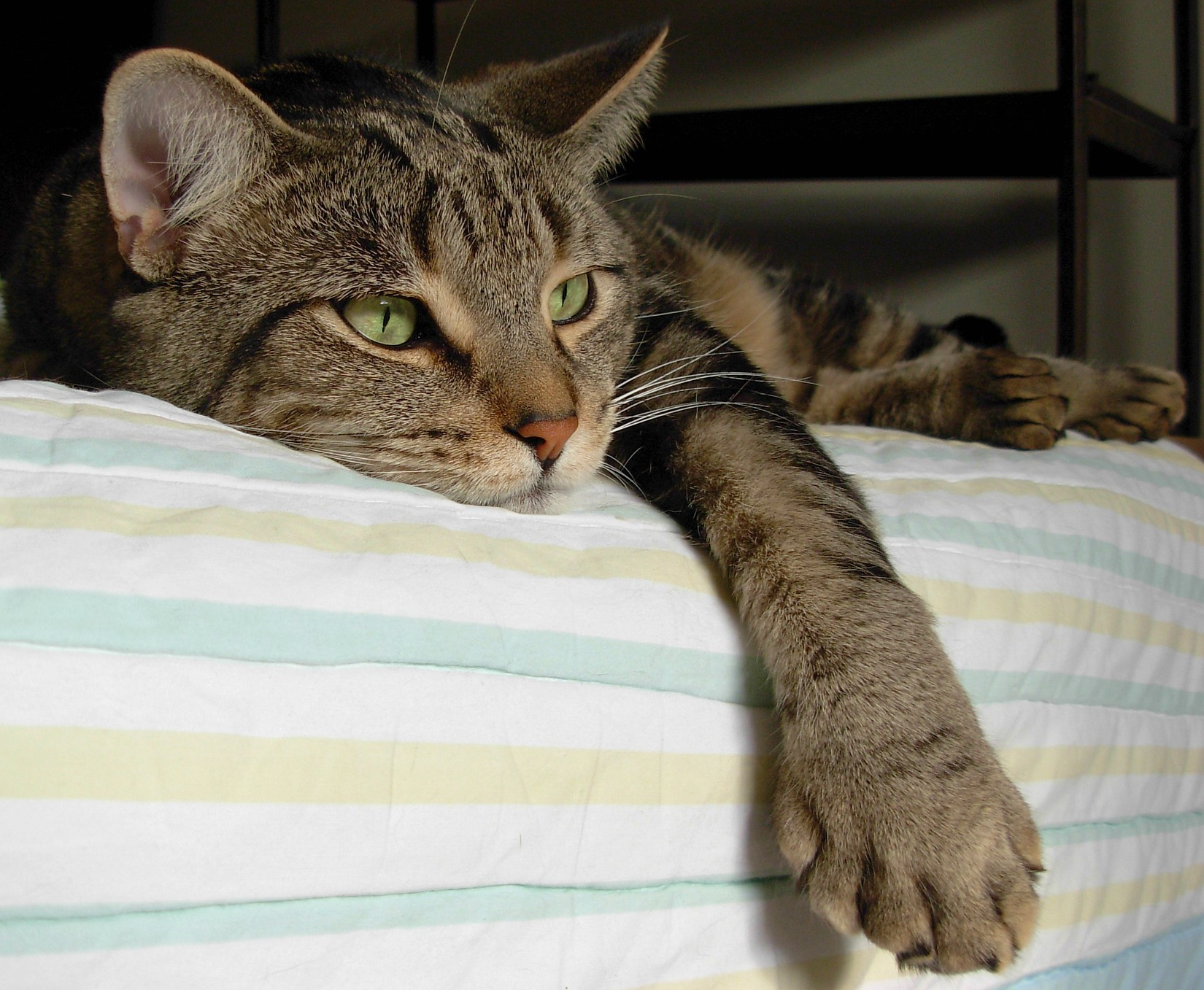 Have a good day, Friends! I am going to sleep by waiting for mom ... zzzZzzZZZzzz